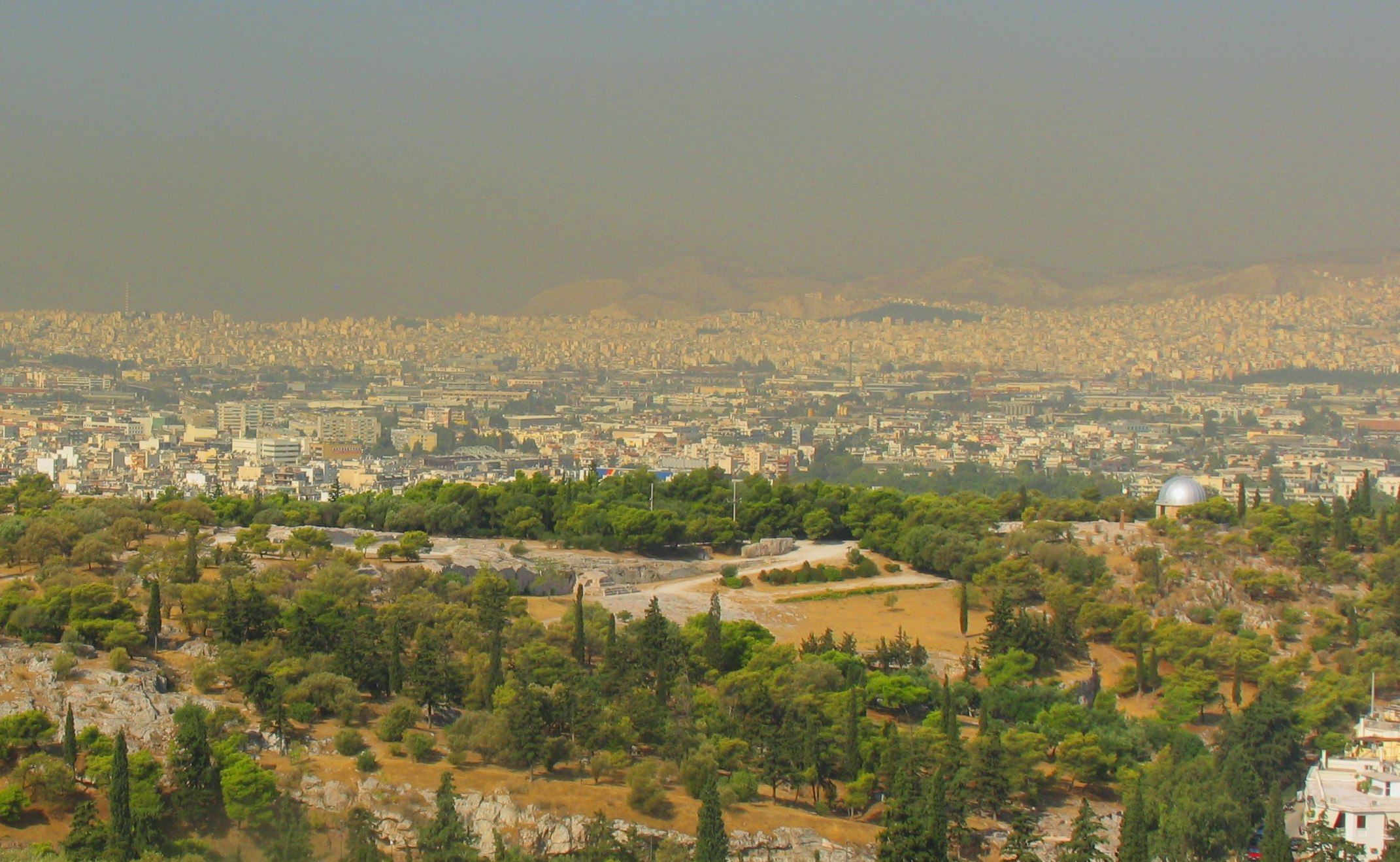 Smog in Athens (view from Acropolis)